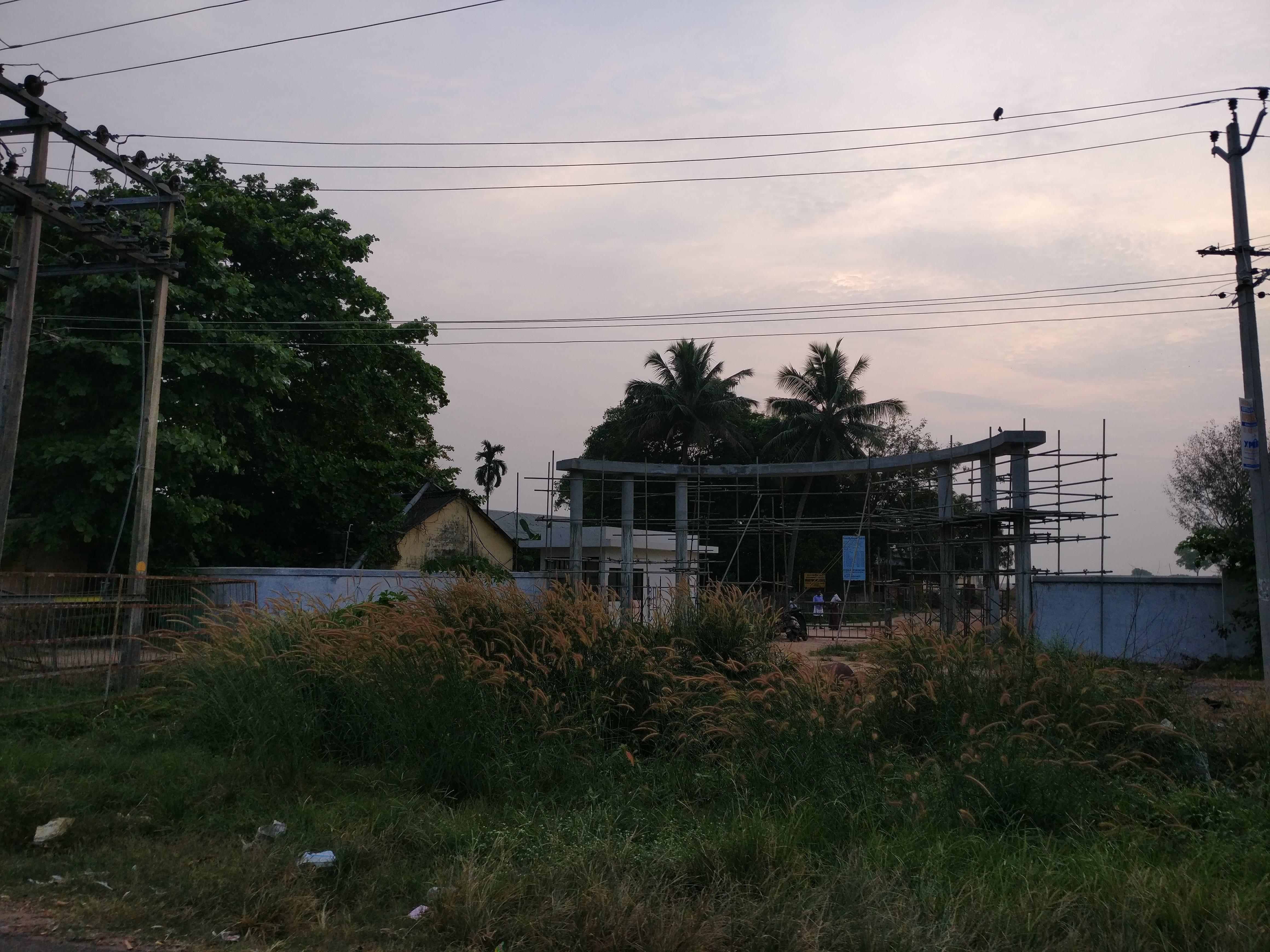 Kerala Maritime Institute is a premier institute for Maritime education in the state established by the Government of Kerala at Neendakara in Kollam city, India.